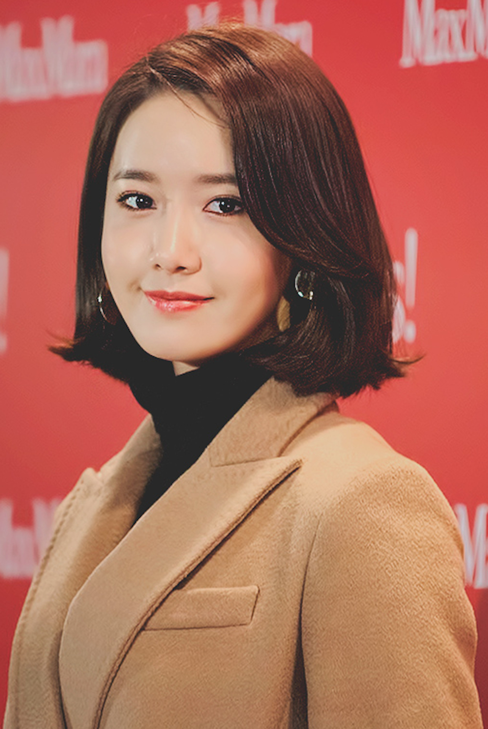 Im Yoon-ah at Coats Max Mara Seoul on November 28, 2017.